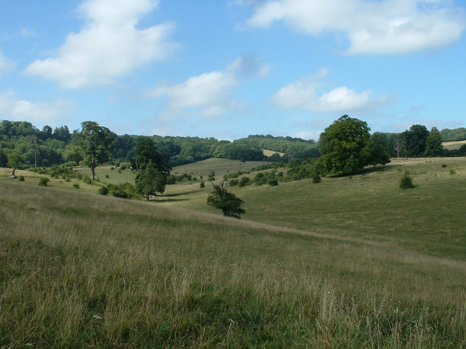 Tring Park, Hertfordshire, looking south